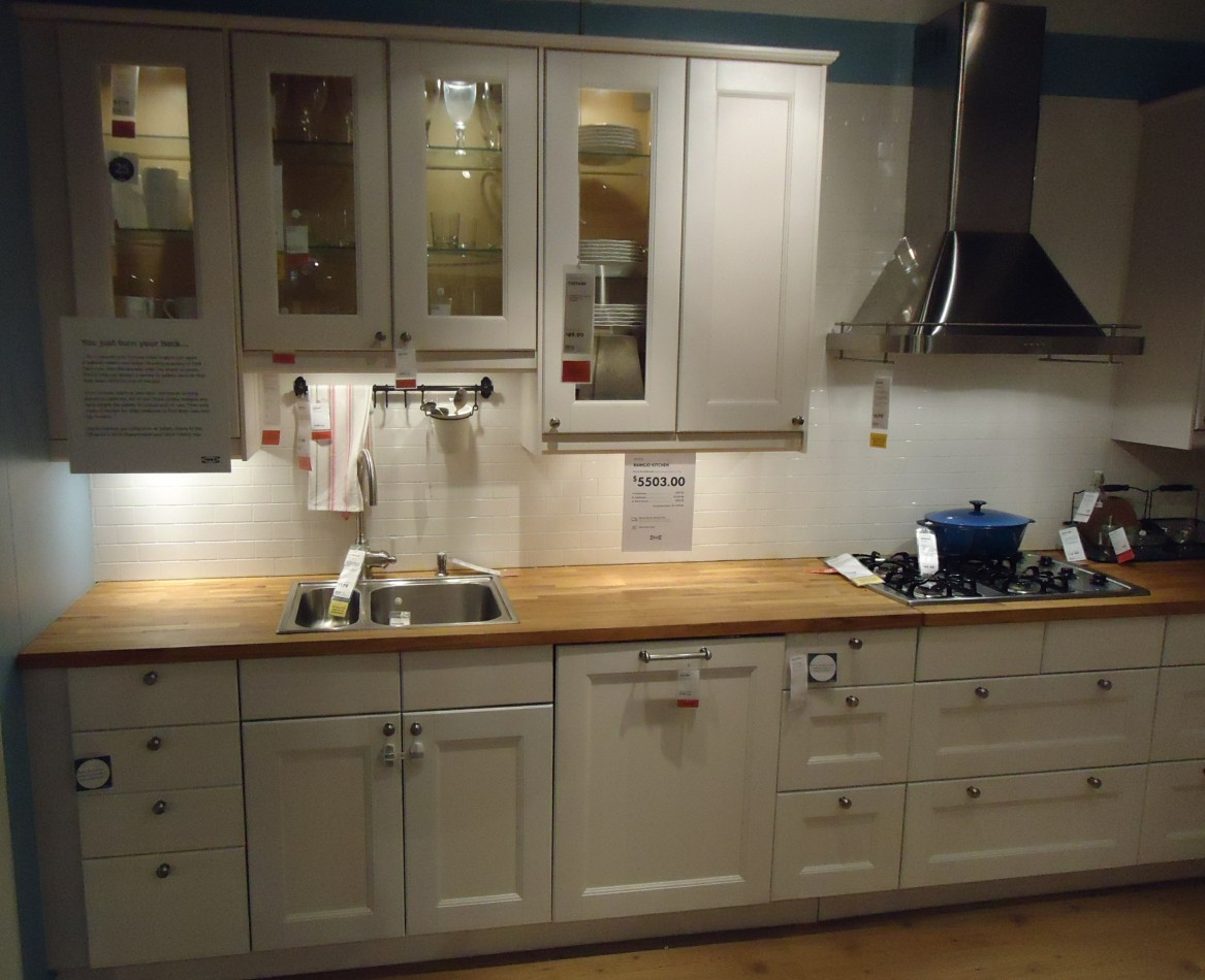 A kitchen design showing cabinets, drawers and appliances.